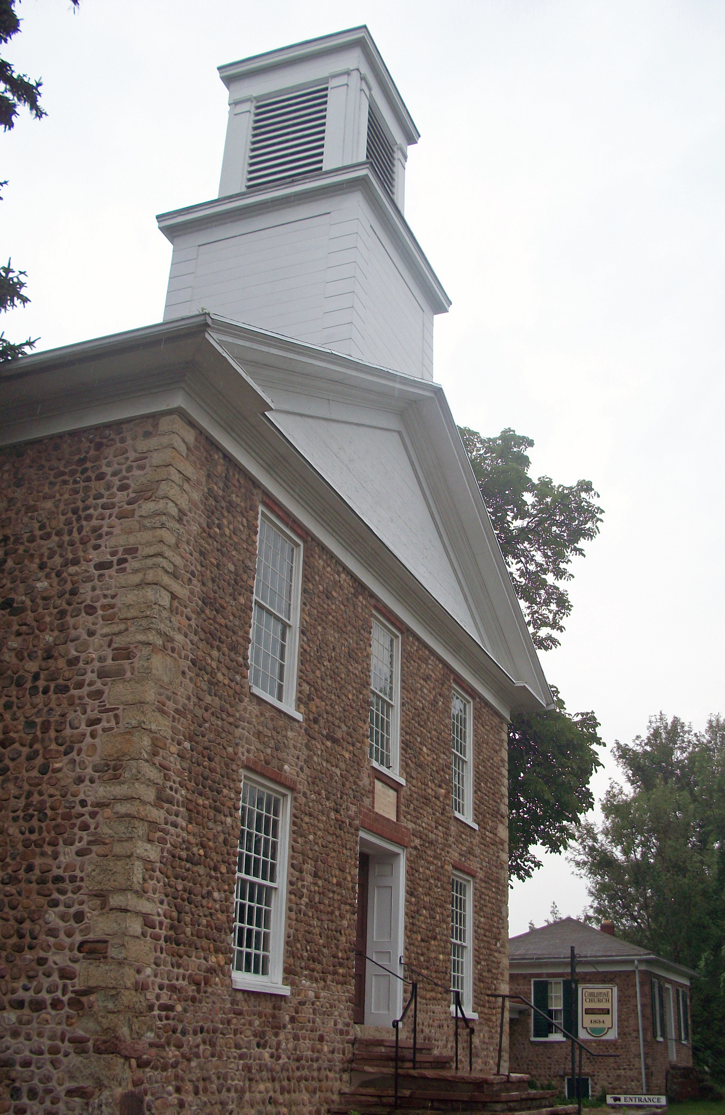 1834 Congregationalist church, now a museum, in Cobblestone Historic District, a National Historic Landmark in Childs, NY, USA